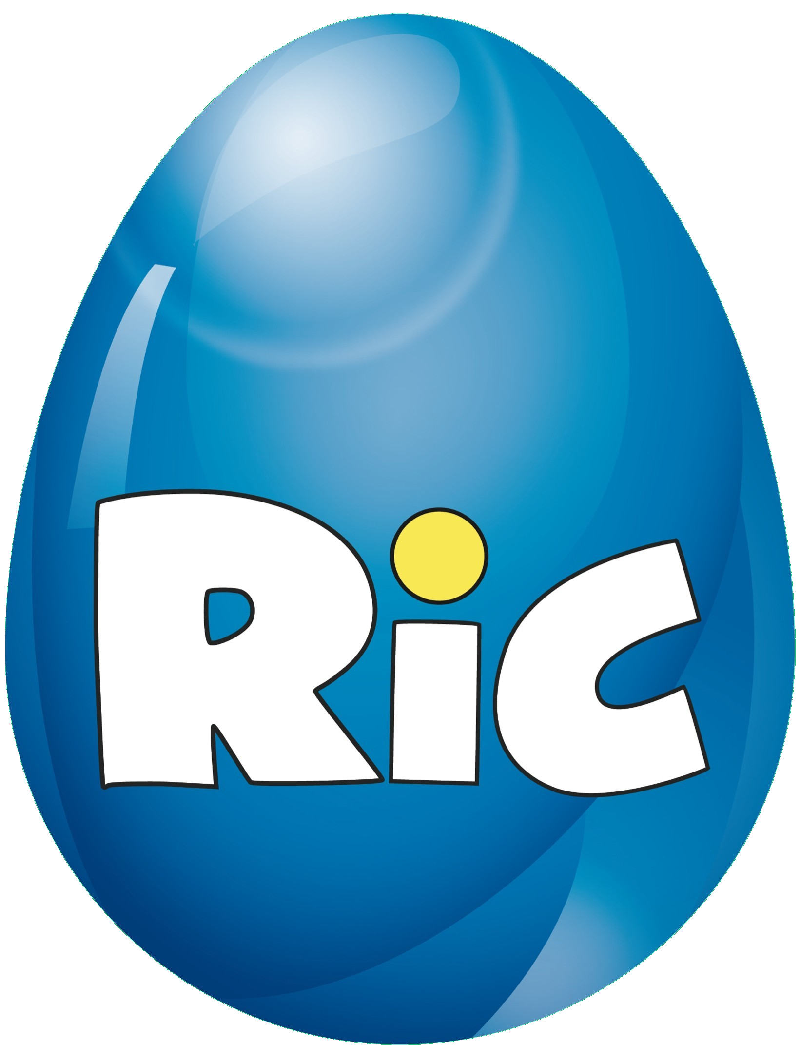 This is the Station Logo of RiC since May 2014.